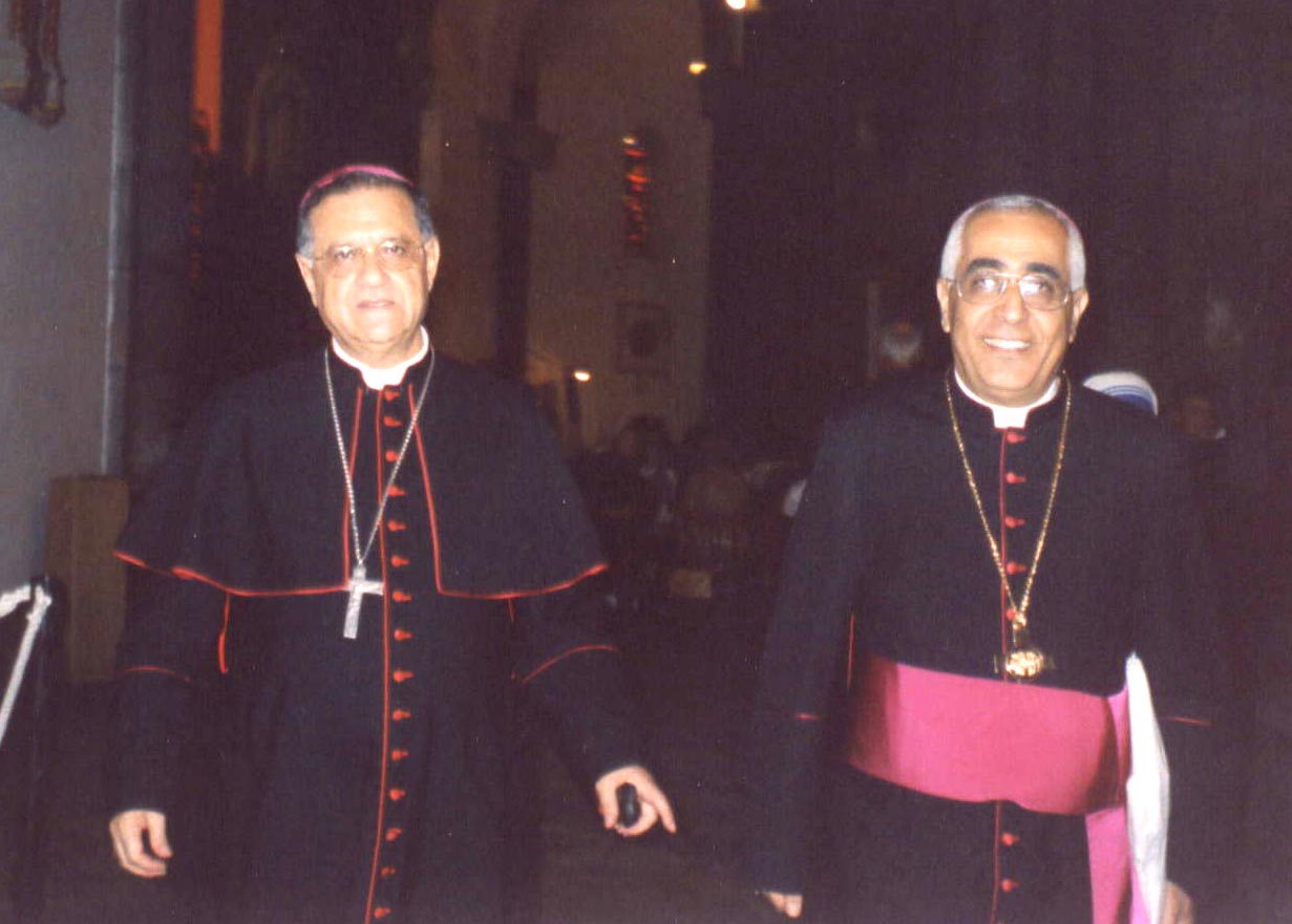 Mons. Twal, Patriarch of Jerusalem (left) and Mons. Lahham, Archbishop of Tunis